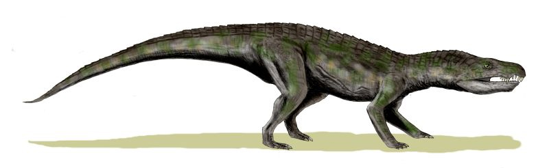 Baurusuchus salgadoensis, a crocodile from the Upper Cretaceous of Brazil, pencil drawing